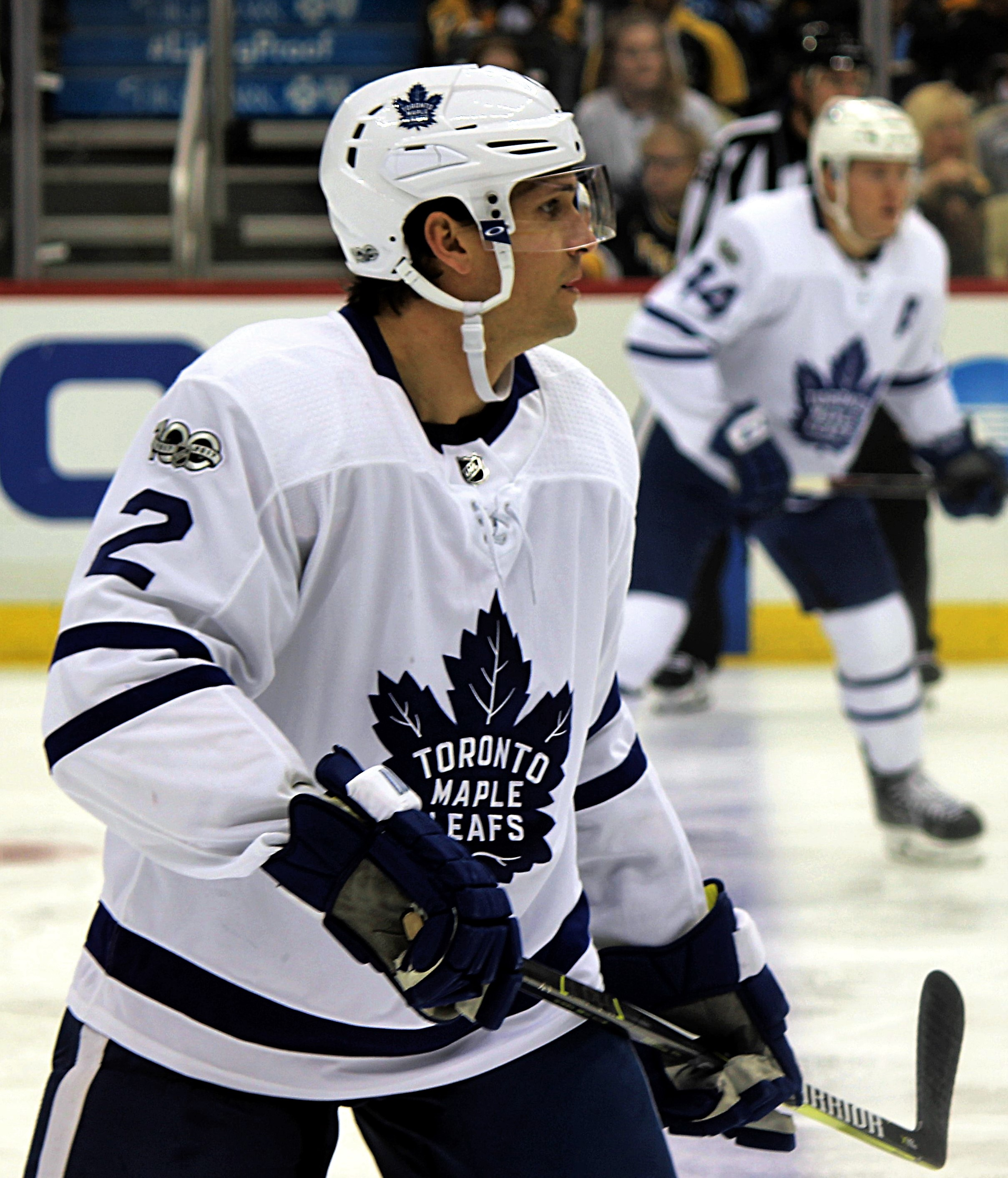 Toronto Maple Leafs defenseman Ron Hainsey during a game against the Pittsburgh Penguins, December 9, 2017, at PPG Paints Arena in Pittsburgh, PA.